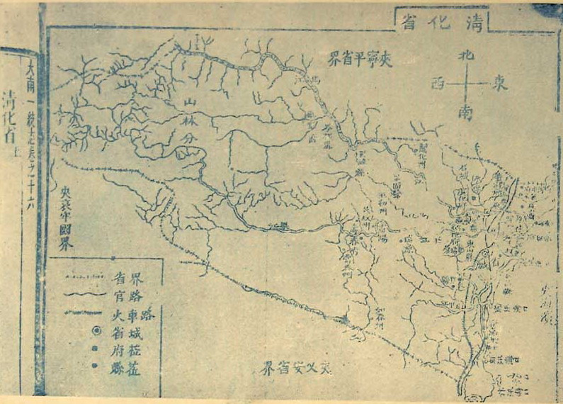 The map of Thanh Hoa Province at the age of Nguyễn dynasty